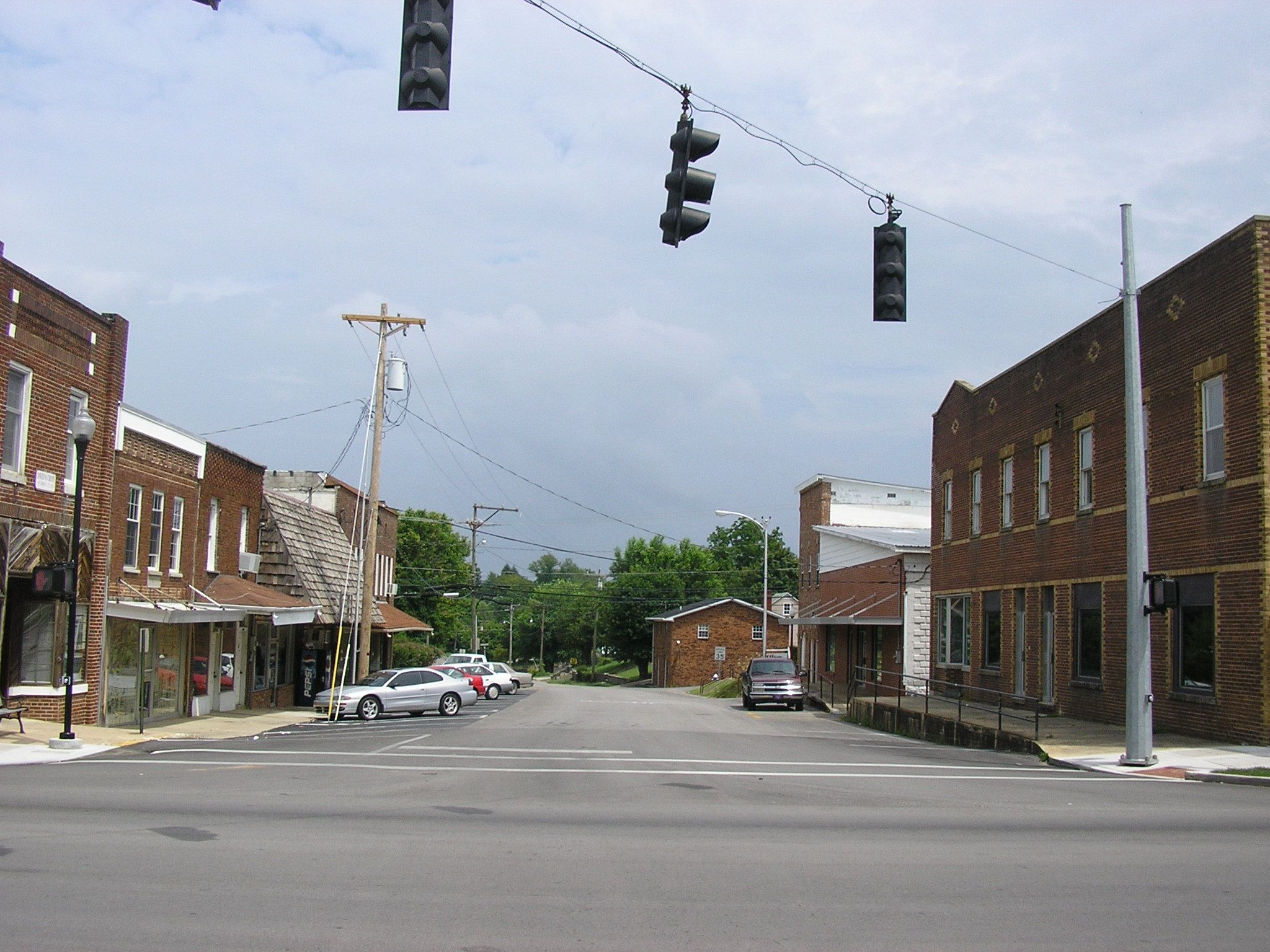 Downtown Albany, Kentucky, USA